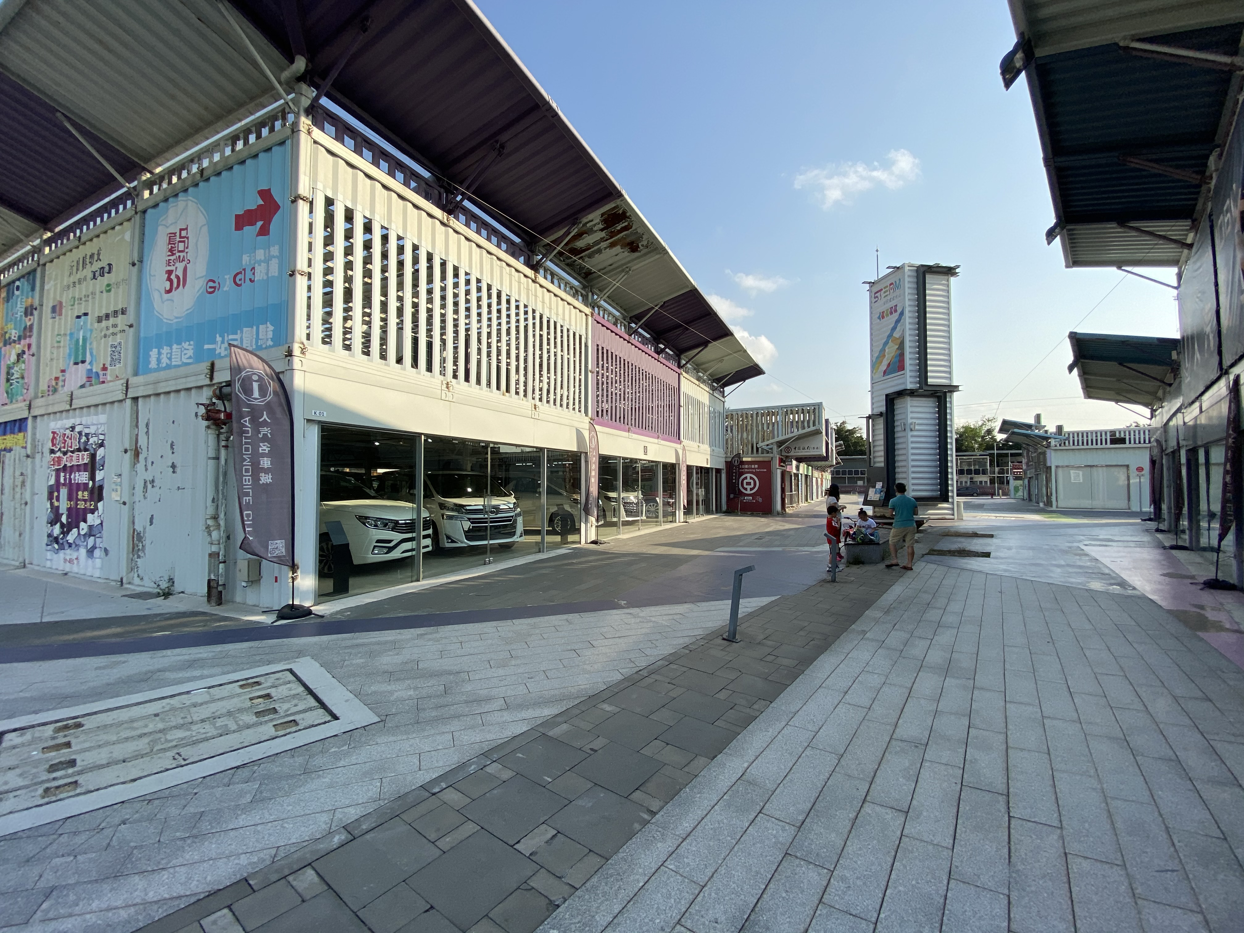 San Tin The Boxes automoblie showroom